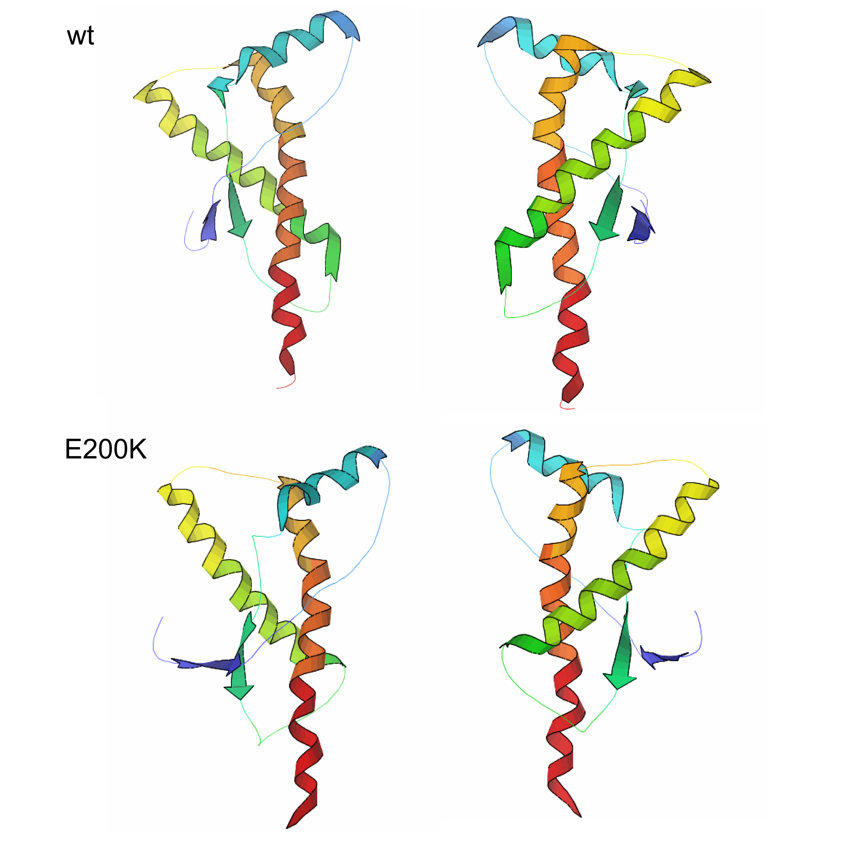 Prion proteins, ribbon models